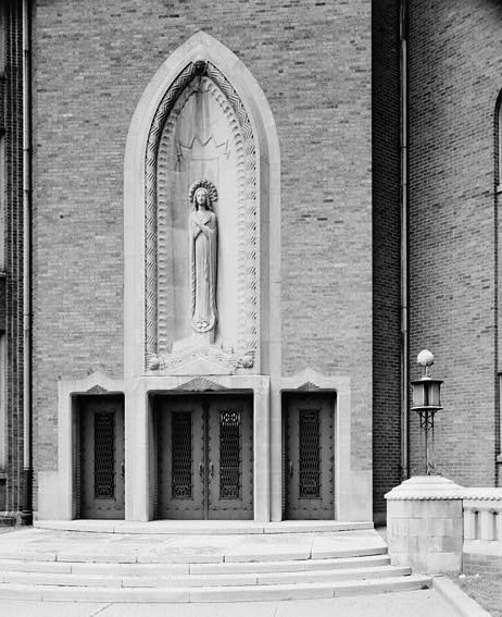 Immaculata High School (Roman Catholic), 640 West Irving Park Road, Chicago (Cook County, Illinois) (cropped) This file comes from the Historic American Buildings Survey (HABS), Historic American Engineering Record (HAER) or Historic American Landscapes Survey (HALS). These are programs of the National Park Service established for the purpose of documenting historic places. Records consist of measured drawings, archival photographs, and written reports. This tag does not indicate the copyright status of the attached work. A normal copyright tag is still required. See Commons:Licensing. This work is in the public domain in the United States because it is a work prepared by an officer or employee of the United States Government as part of that person’s official duties under the terms of Title 17, Chapter 1, Section 105 of the US Code. Note: This only applies to original works of the Federal Government and not to the work of any individual U.S. state, territory, commonwealth, county, municipality, or any other subdivision. This template also does not apply to postage stamp designs published by the United States Postal Service since 1978. (See § 313.6(C)(1) of Compendium of U.S. Copyright Office Practices). It also does not apply to certain US coins; see The US Mint Terms of Use. This file has been identified as being free of known restrictions under copyright law, including all related and neighboring rights. Object location41° 57′ 18″ N, 87° 38′ 45″ W The geographical information of this file was retrospectively estimated.Chances are that this location is very imprecise.Verifying and refining these coordinates is strongly encouraged.